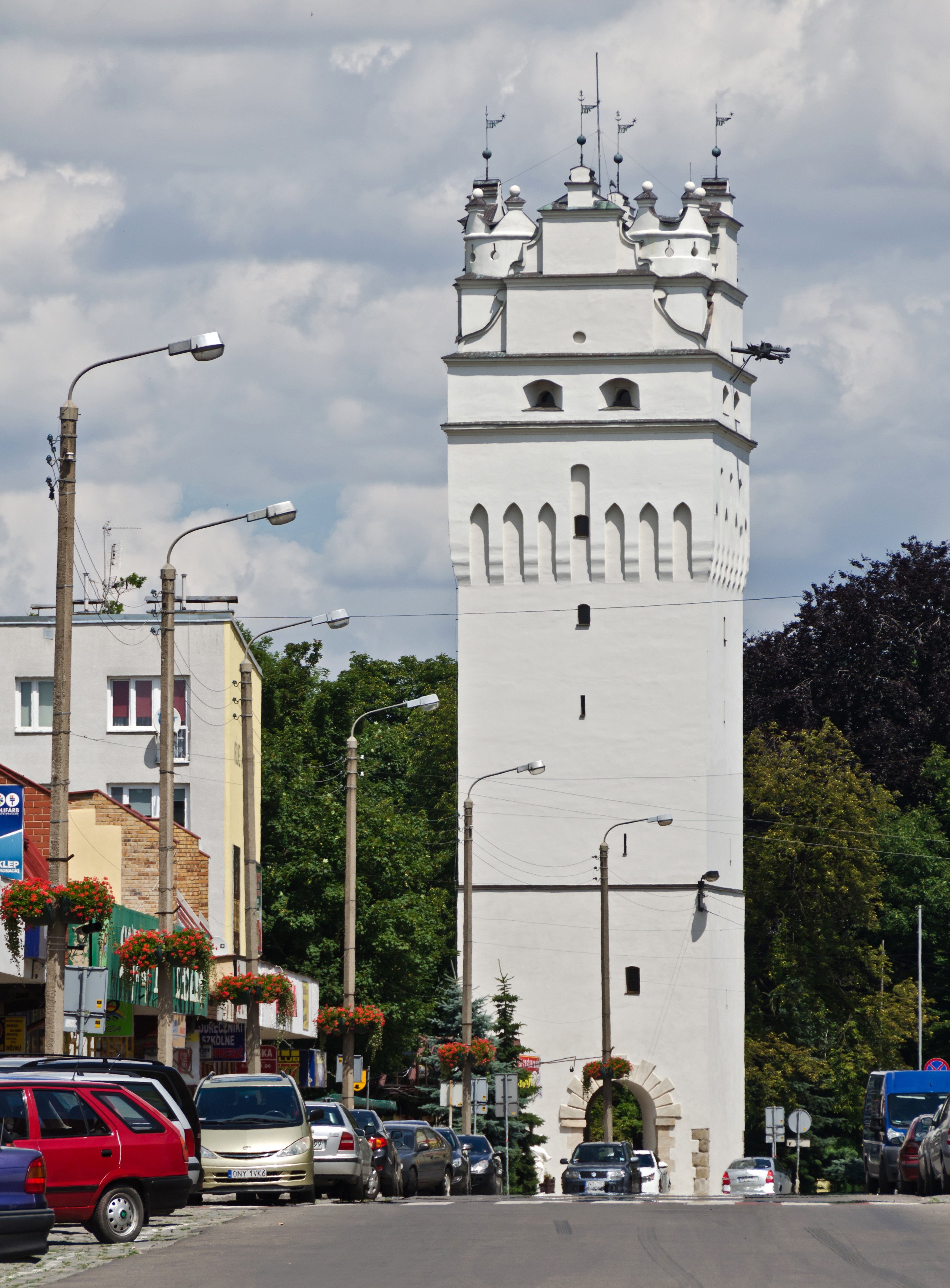 Wrocławska Gate in Nysa